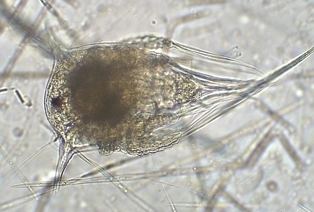 Larva (nauplius) of bay barnacle; hydrofront of Dnieper-Bug Liman